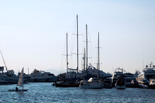 Glyfada's marine is one of the most modern in Attica, recently extended